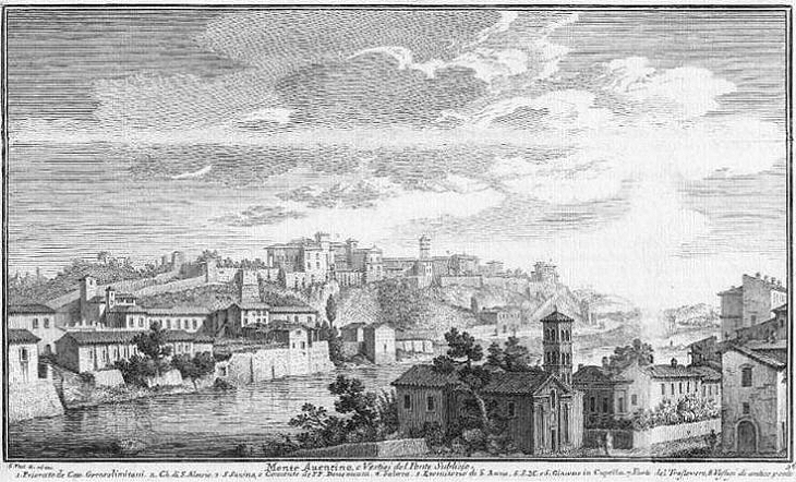 1) Palazzo dei Cavalieri; 2) S. Alessio ; 3) S. Sabina; 4) Salara (salt-works); 5) Eremitorio di S. Anna; 6) S. Maria in Cappella; 7) Part of Trastevere; 8) Ruin of Ponte Sublicio.